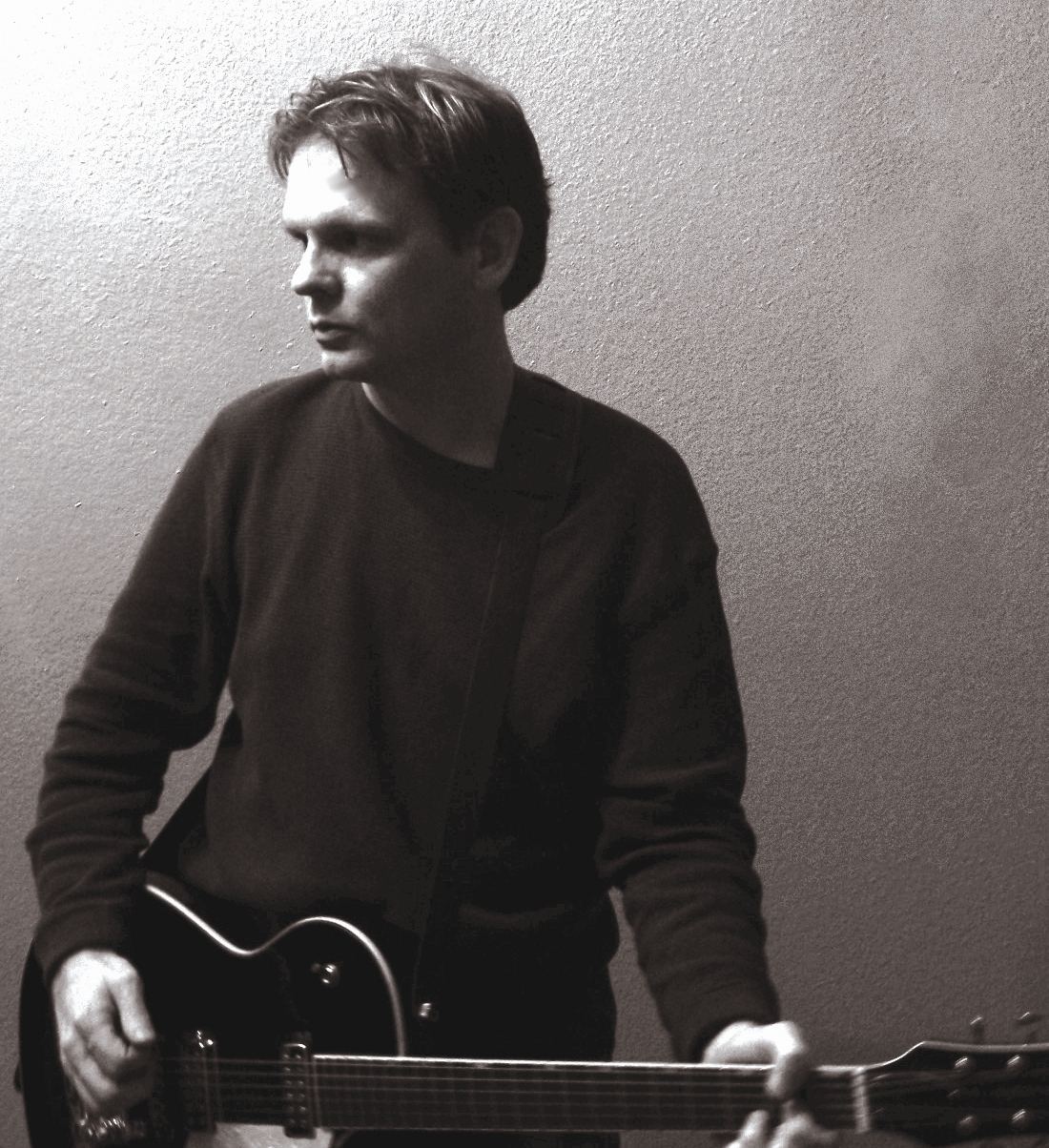 Promotional photo of the musician known as Darren Farris.